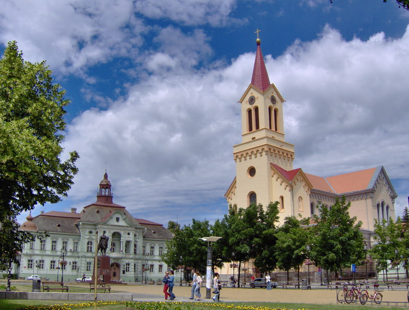 Liberty square, May 2006